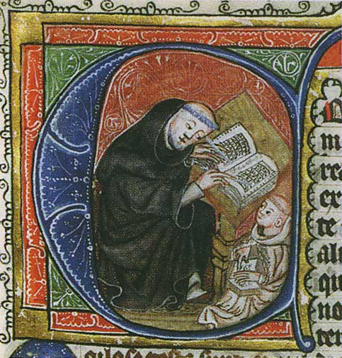 Benedict of Nursia (left) and Caesarius of Heisterbach (right), from Dialogus Miraculorum manuscript Ms. C 27, fol 2 r, University library Düsseldorf, early 14th century. For the whole page, see Image:HeisterbachDialogus.jpg.